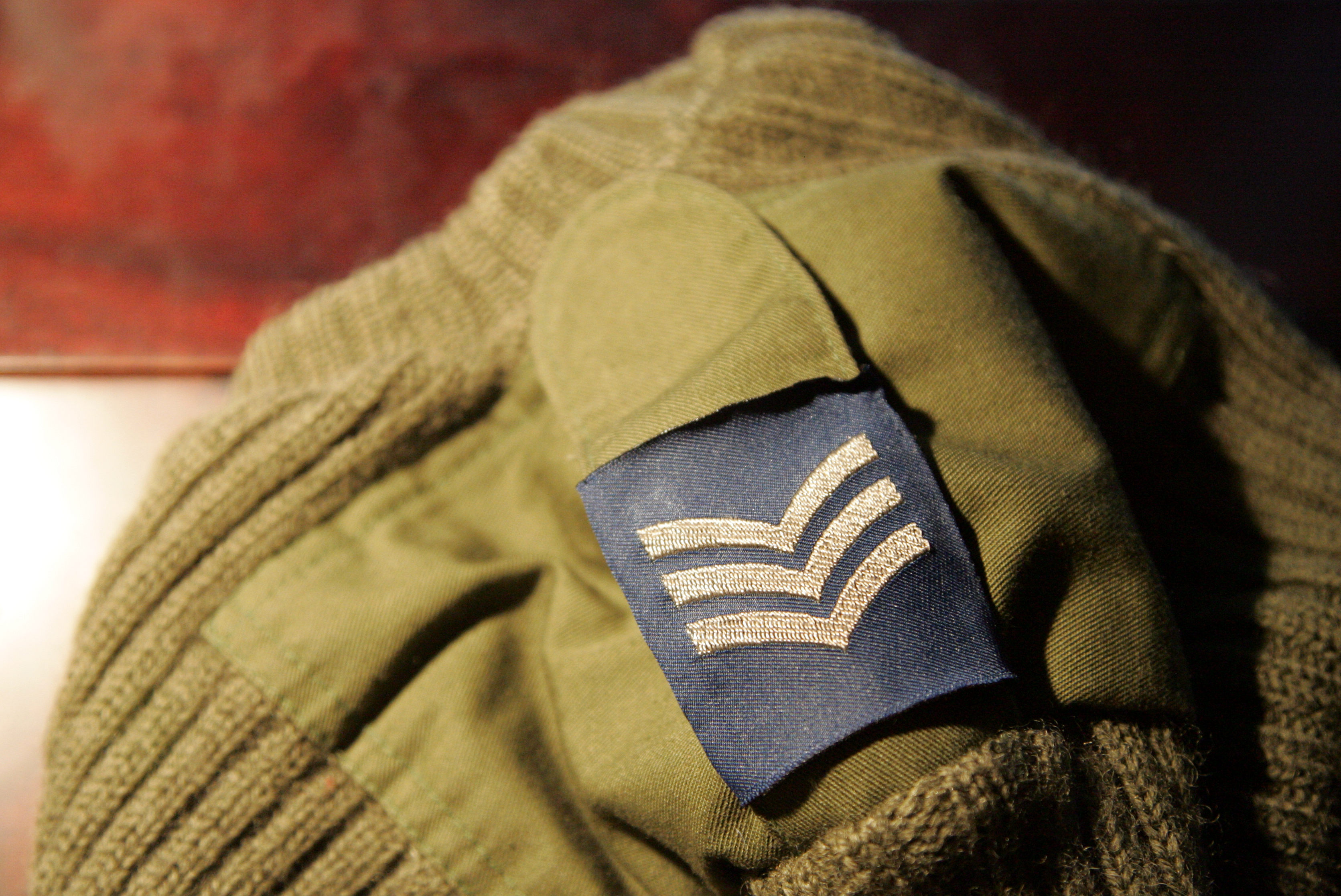 Shoulder strap and shoulder mark of a British Army pullover